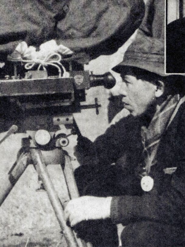 Yūharu Atsuta